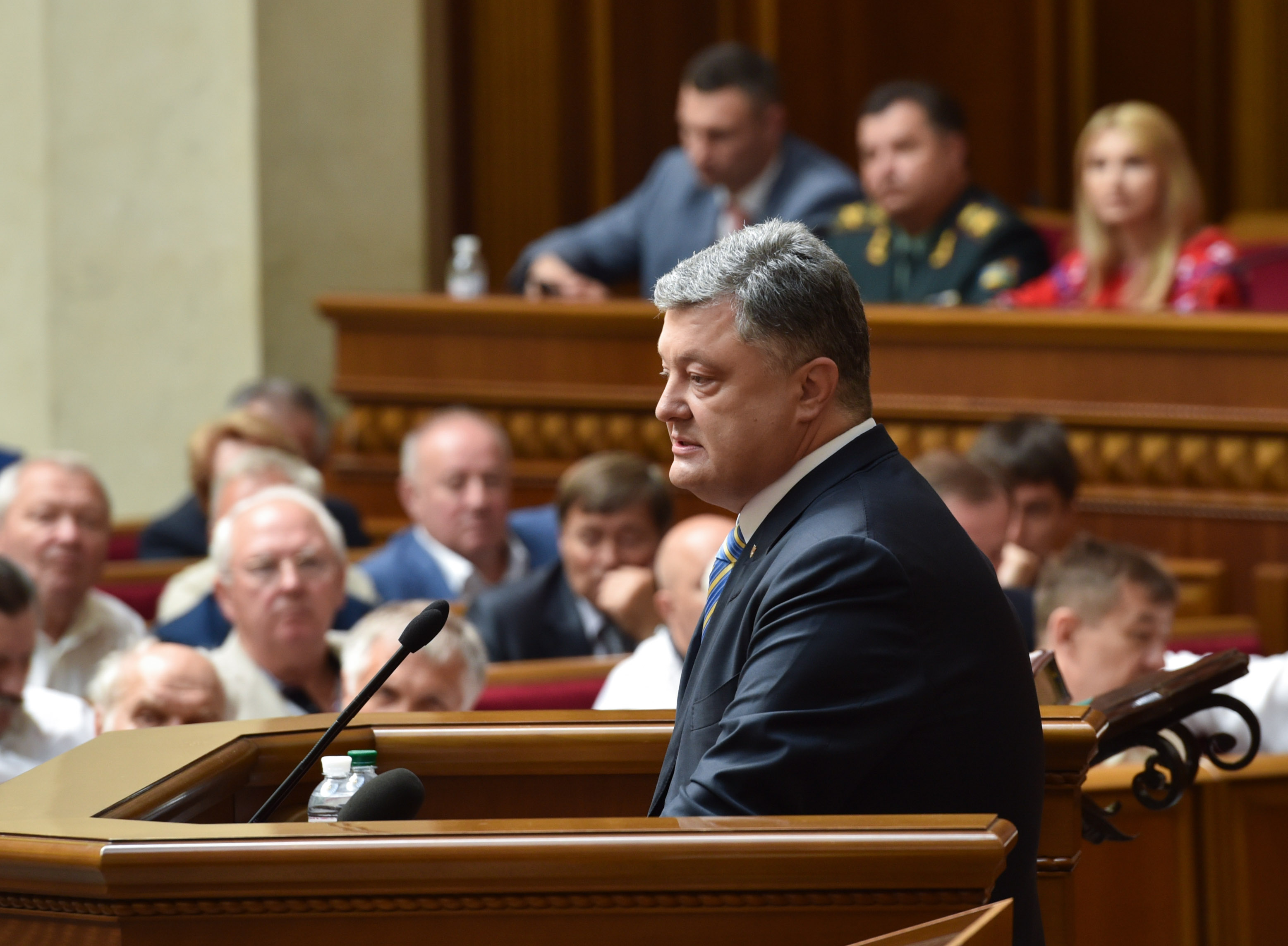 Participation of Petro Poroshenko in festivities on occasion of Day of Constitution of Ukraine 2016-06-28